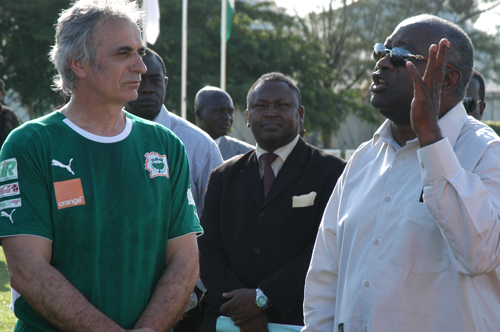 Vahid Halilhodžić, association football national coach of Cote d'Ivoire, and President Laurent Gbagbo